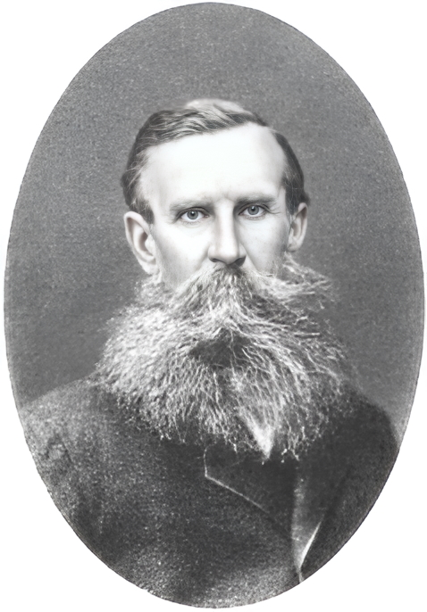 Russian writer and historian Nikolai Vasilyevich Berg (1823-1884)